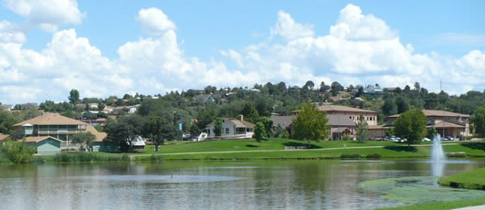 View of Green Valley Park, Payson, Arizona. Green Valley Park was officially dedicated on October 19, 1996. The park is open daily for various activities & events including: walking, fishing, boating, picnicking, skating, and general recreation and relaxation.